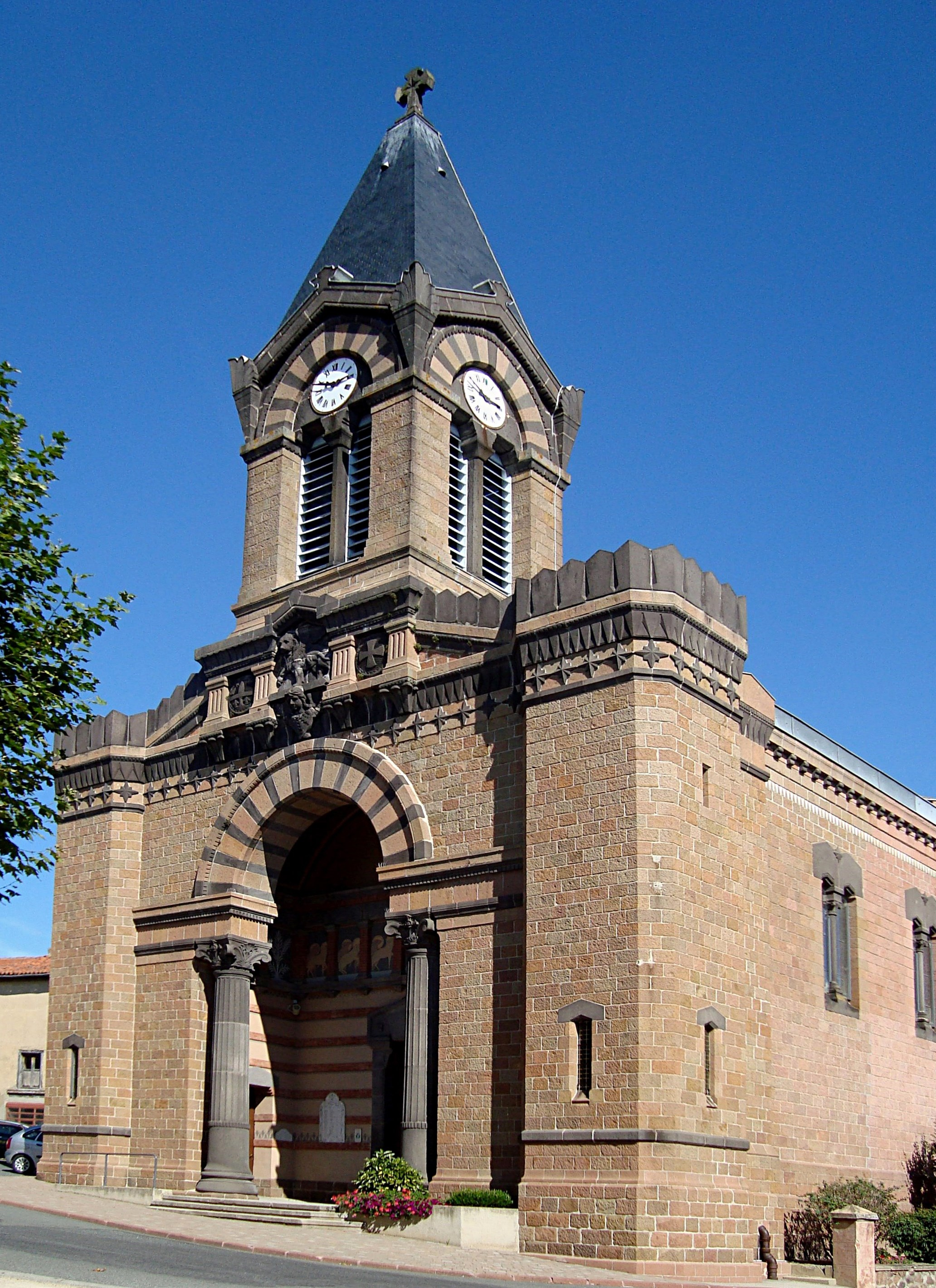 Church Grézieu-le-Marché, Rhone, France